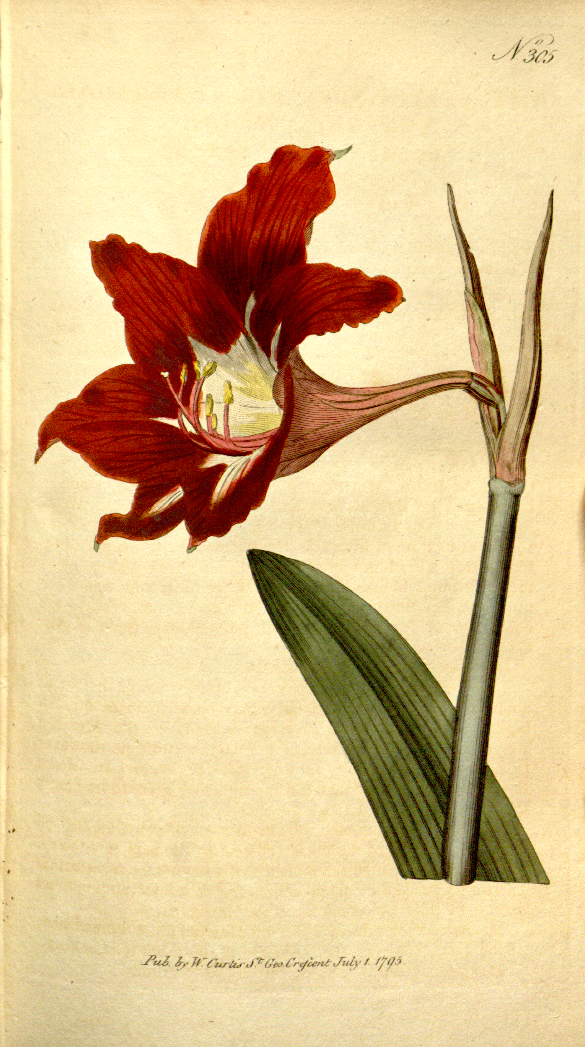 This is a plate from The Botanical Magazine, Volume 9.